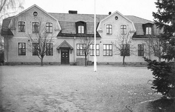 The school in Rynninge, Örebro, Sweden